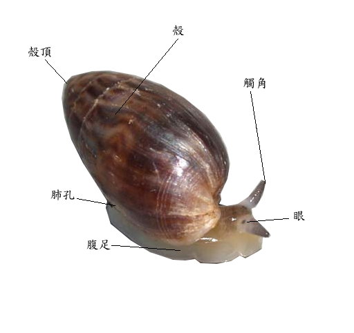 The structure of actophila